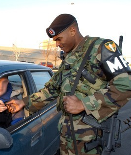 Spc. Patrick Jean-Mary, of Warwick, R.I., inspects two forms of identification during the 2002 Winter Olympic Games in Salt Lake City. (Photo by Sgt. Marc Martinez, Joint Task Force - Olympics Public Affairs)